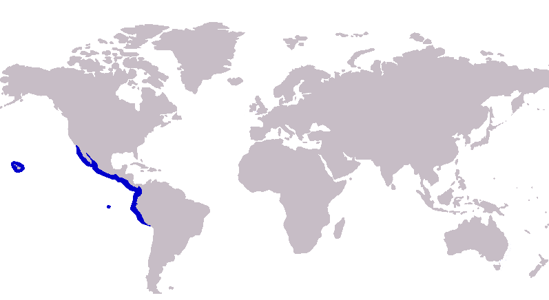 Distribution of green jack, Caranx caballus using map based on GDFL image: }